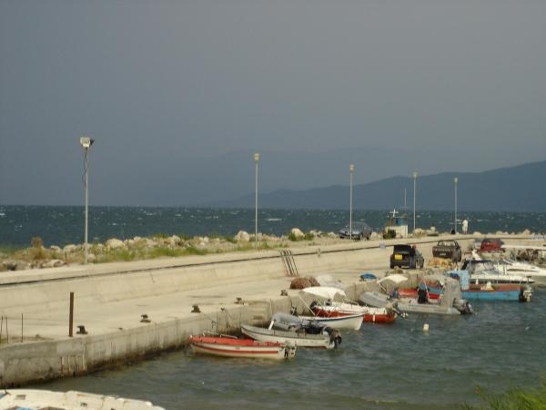 Jetty in Asprovalta, Macedonia, Greece